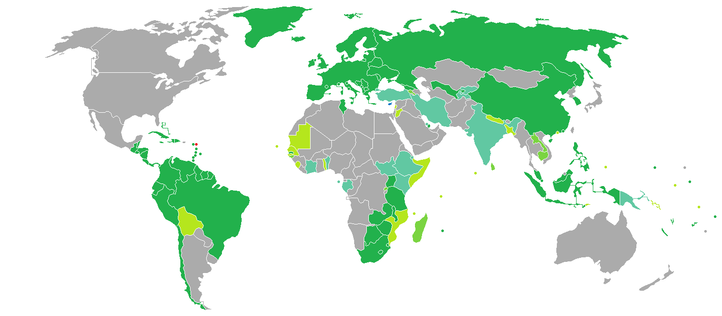 Visa requirements for Antigua and Barbuda citizens Antigua and Barbuda Visa free access Visa on arrival eVisa Visa available both on arrival or online Visa required